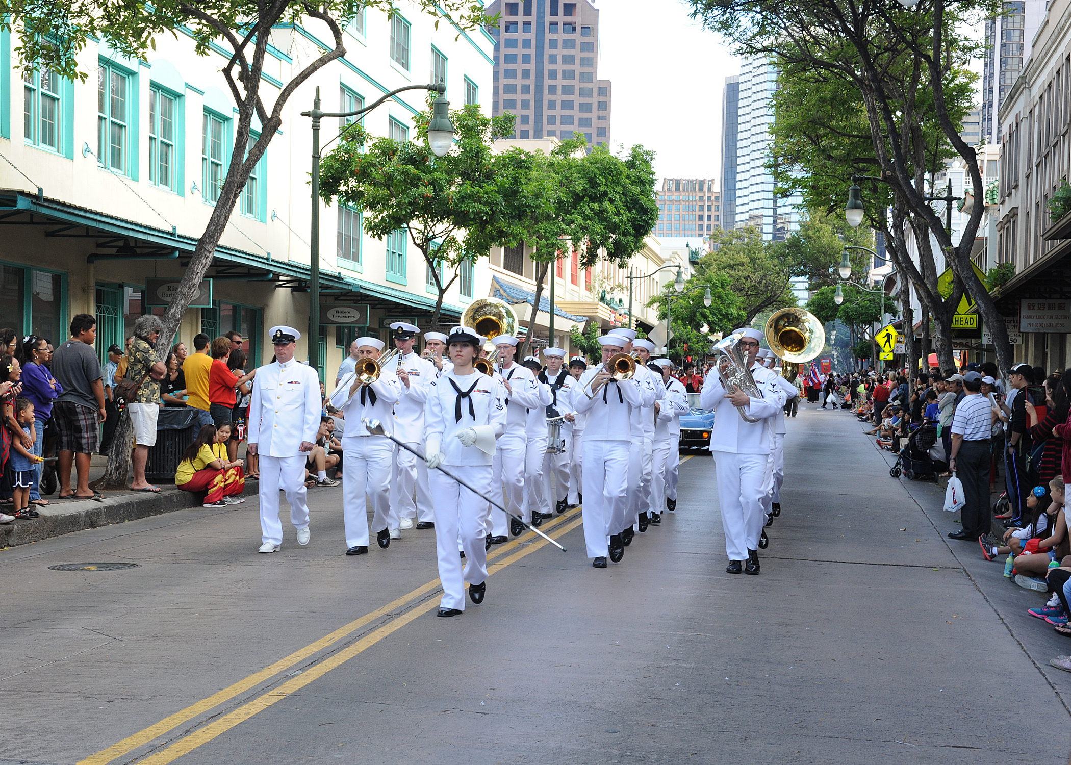 Members of the U.S. Navy Pacific Fleet Band march in downtown Chinatown during the 2014 Night in Chinatown Street Festival. The multi-block street festival in the heart of Chinatown featured live entertainment, foods and crafts. The Chinatown Merchants Association hosted the parade, which is held annually to celebrate the Chinese New Year. (U.S. Navy photo by Mass Communication Specialist 1st Class Nardel Gervacio/Released)